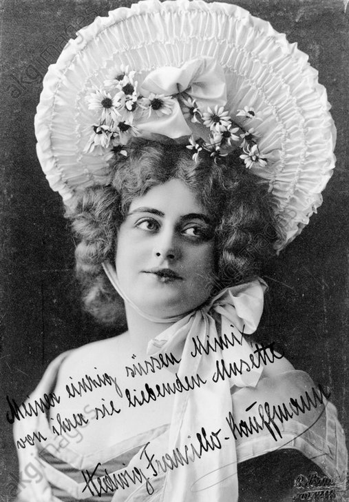 Hedwig Francillo-Kaufmann, an Austrian opera vocalist, as Musetta in “La Boheme” by Giacomo Puccini.